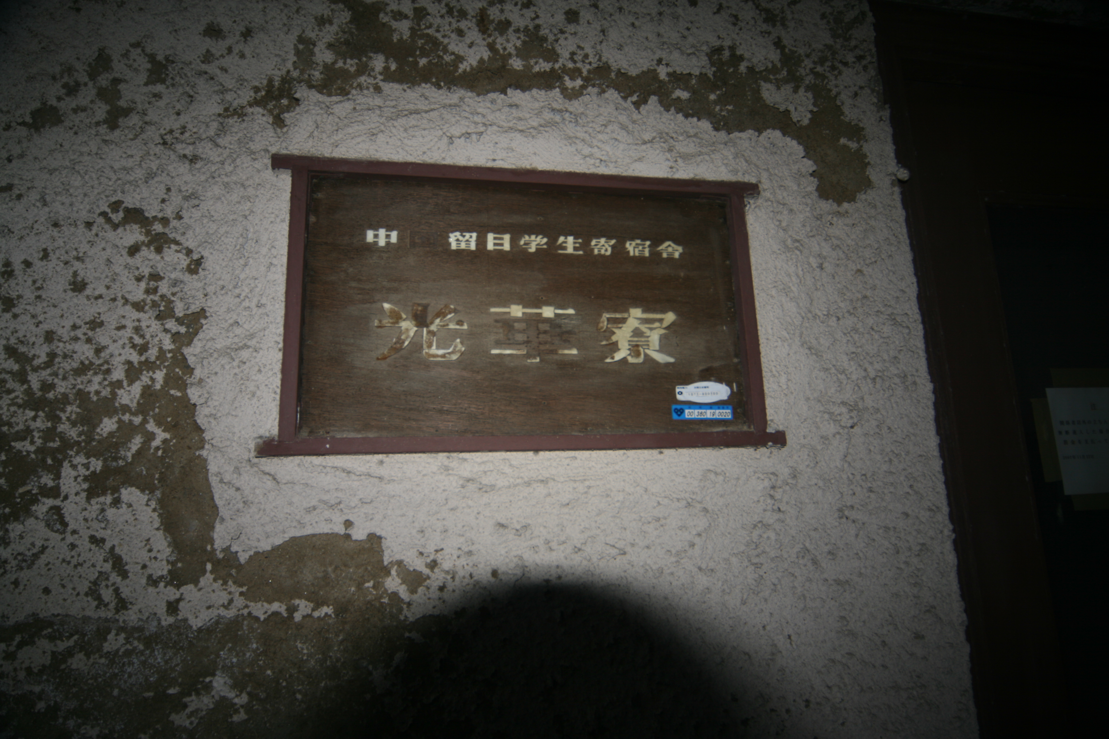 The plaque of Kokaryo, a dormitory for Chinese students study in Kyoto Japan.